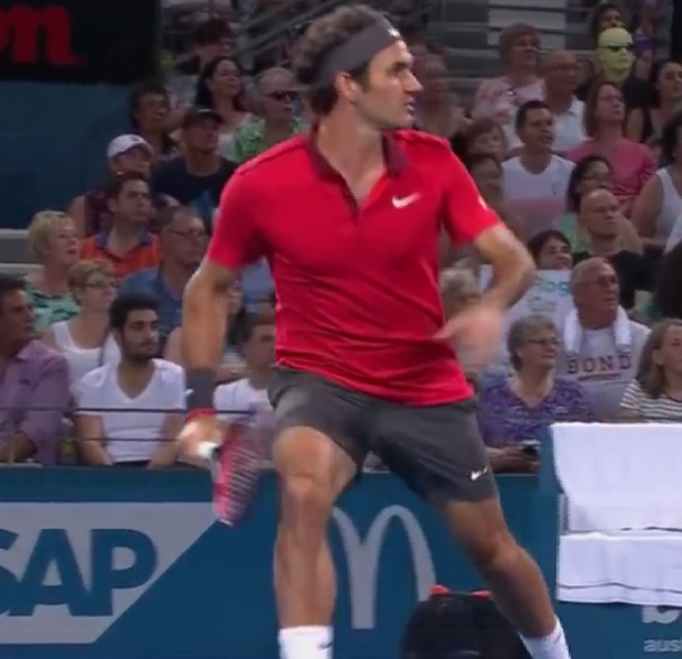 Roger Federer playing against Milos Raonic at the 2015 Brisbane International